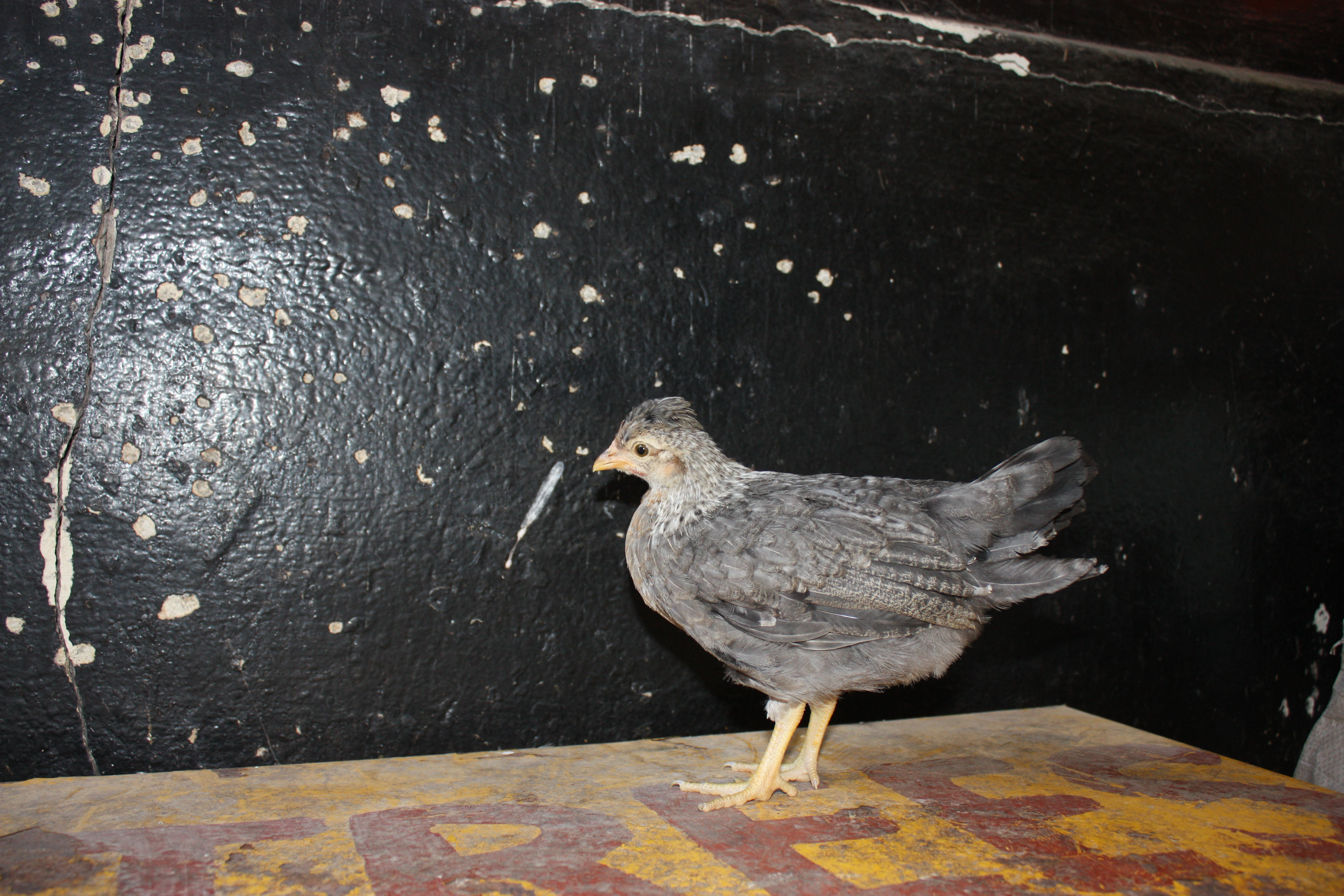 A young Cream Crested Legbar Pullet.